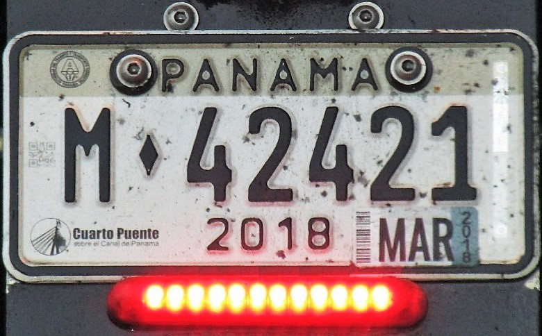 Motorcycle license plate of Panama, seen in Liechtenstein